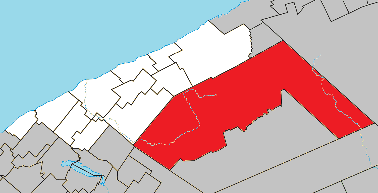 Location of Rivière-Bonjour, Quebec within Matane Regional County Municipality.